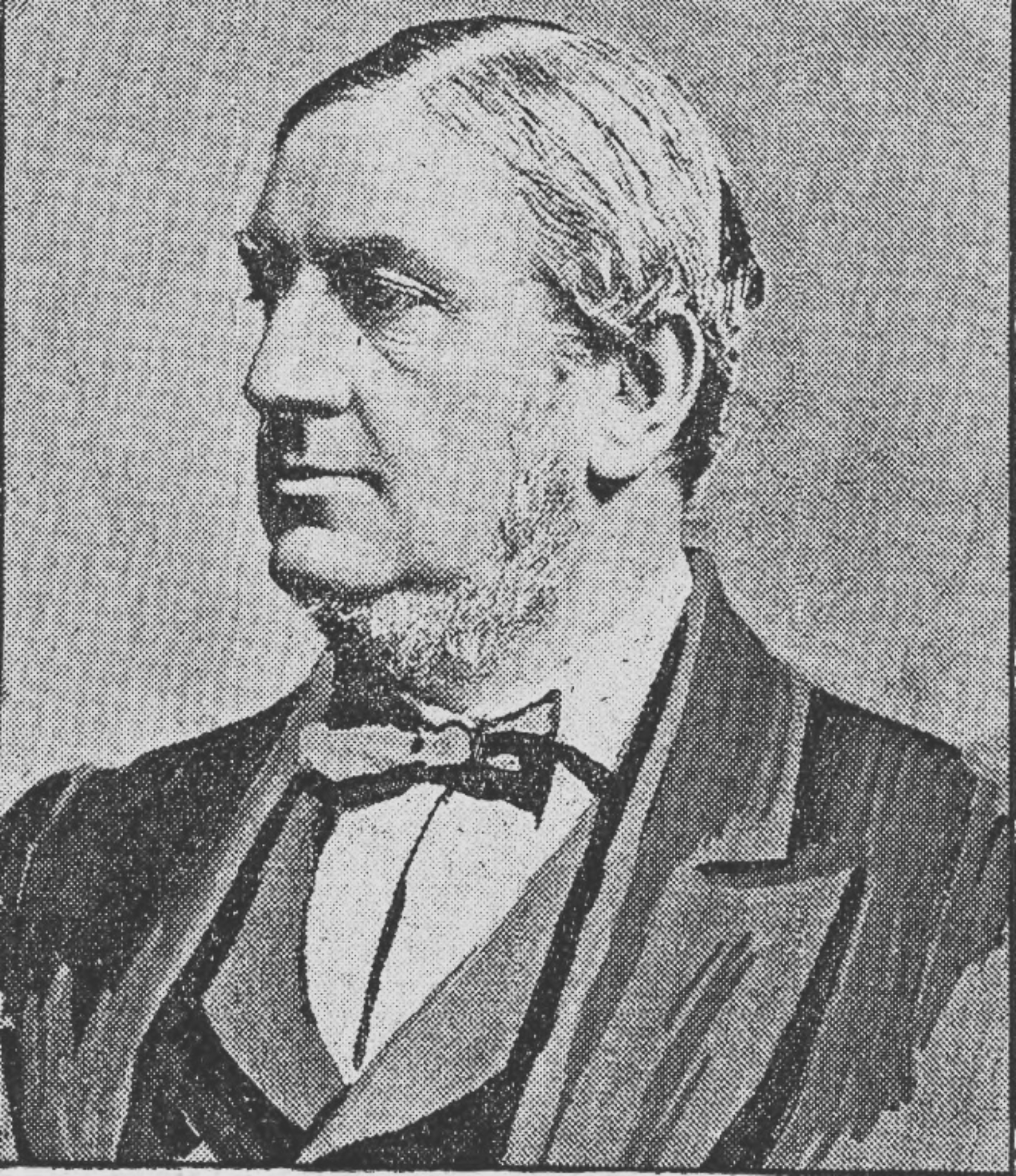 William Harcourt (William George Granville Venables Vernon Harcourt) 1827-1904